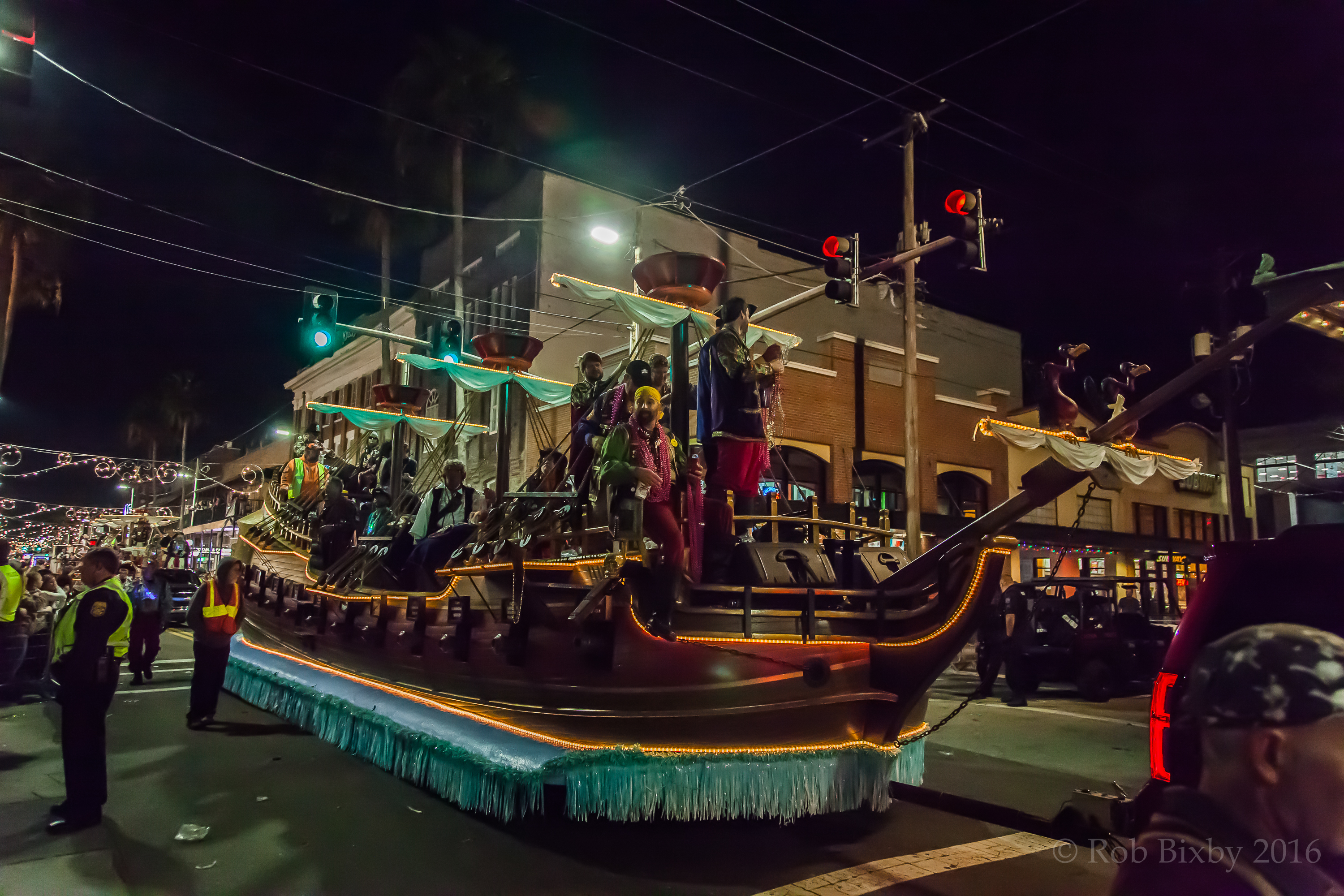 A float in the Sant'Yago Knight Parade in Ybor City in 2016.